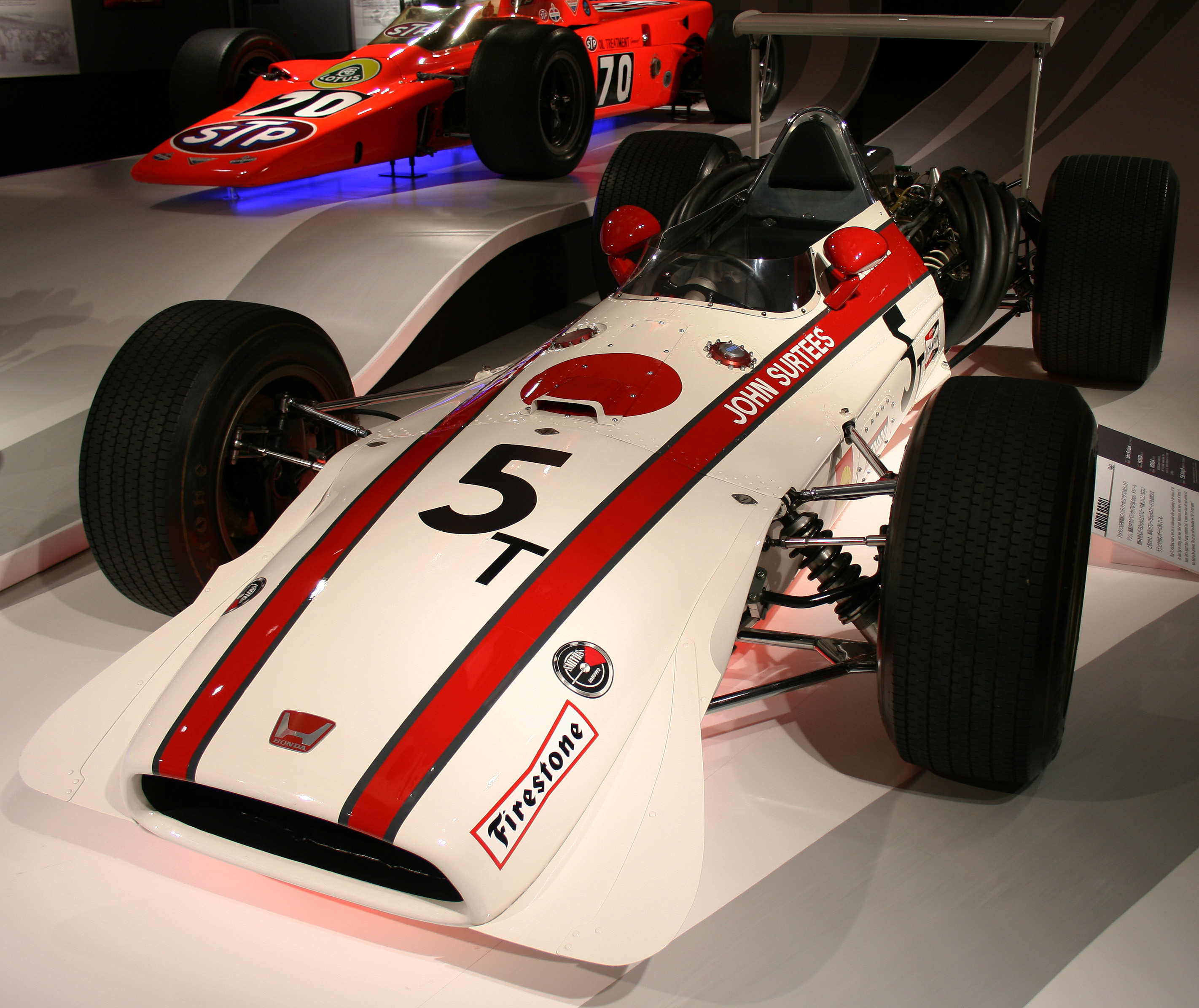 The Honda RA301 for Indianapolis Motor Speedway test: the car has name but John Surtees did not drive the car for the test after 1968 Mexican GP.